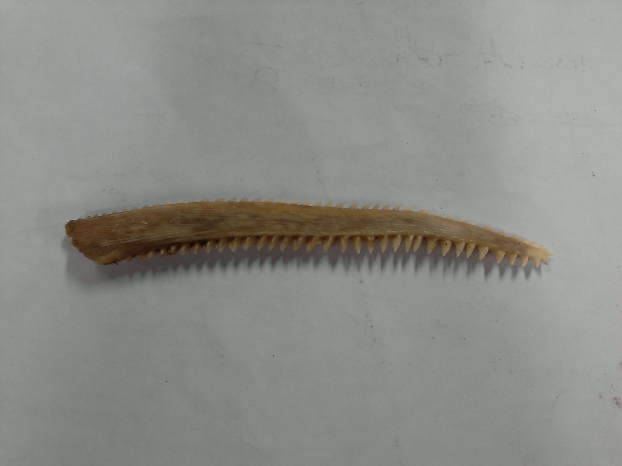 presumed wing of a fish of lagoon locate near river Parguaza in the parish La Urbana, municipalily Cedeño state Bolívar, República Bolivariana de Venezuela